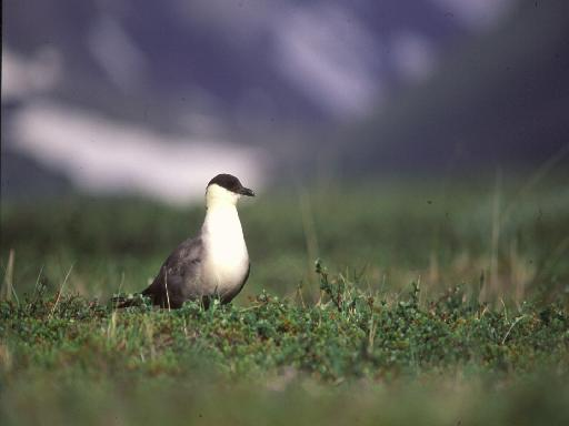 Stercorarius longicaudus photographed by Johan Arvelius in Vistasvagge, Sweden, 2001.